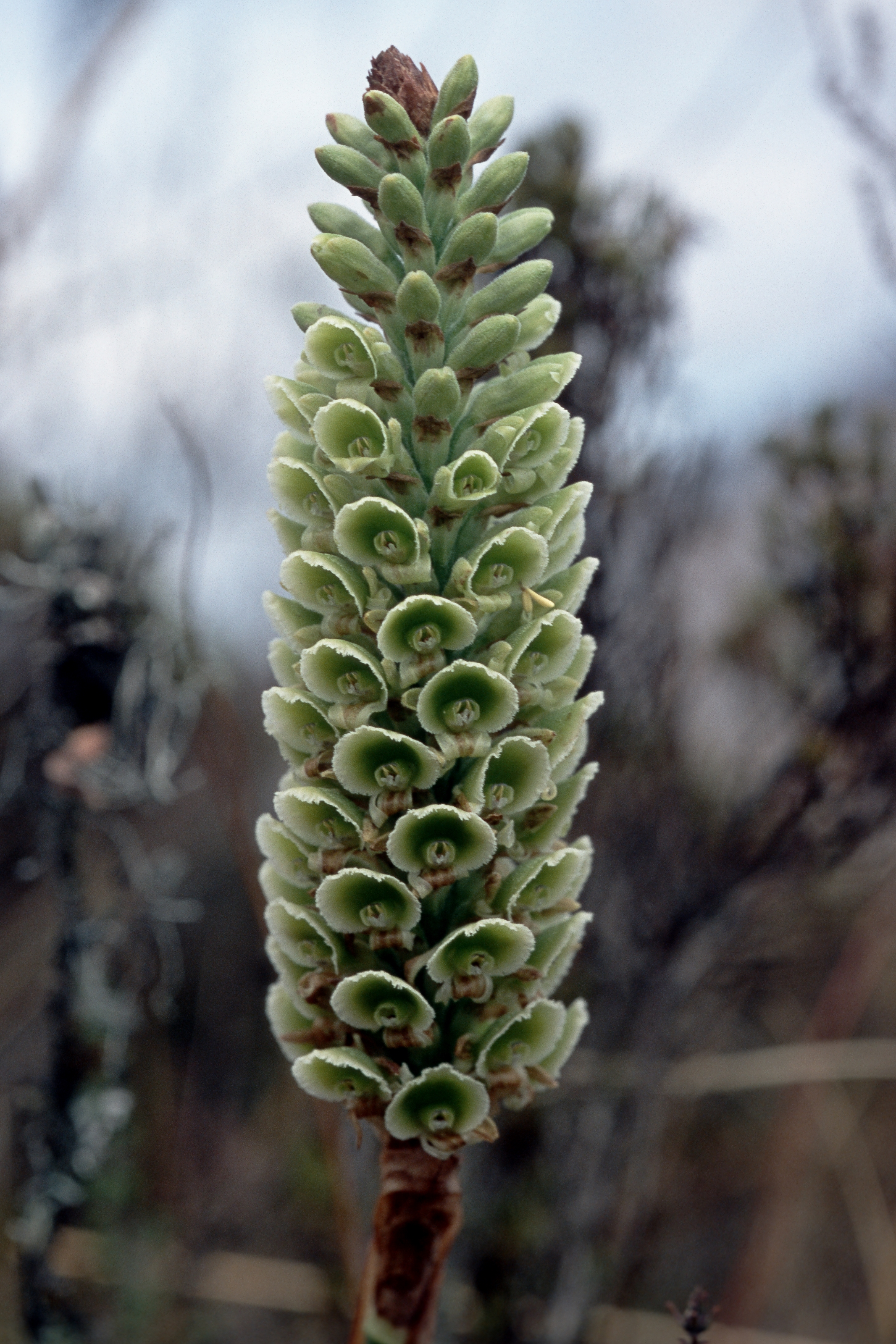 the orchid Altensteinia virescens, Pululahua Nature Reserve - Ecuador.